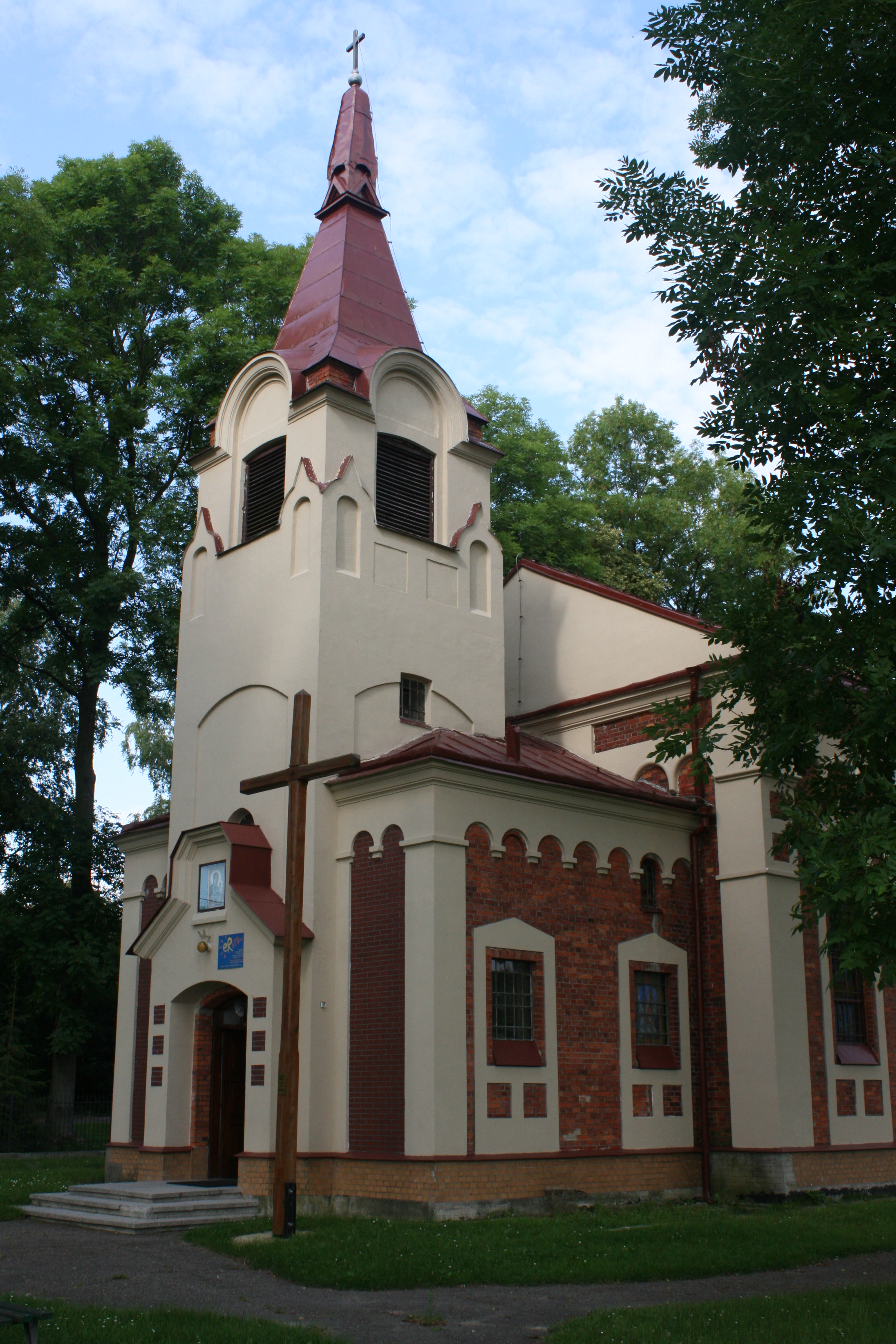 Former orthodox church of Saint John the Theologian (now Roman catholic church of Our Lady of Częstochowa) in Krupe, Poland